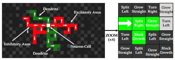 Growthphase of the CoDi CA from a chromosome